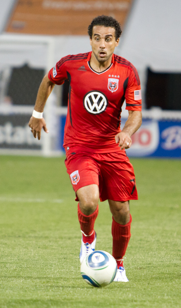 D.C. United midfielder, Dwayne De Rosario dribbles the ball during a match against the Philadelphia Union on July 2, 2011 at RFK Stadium in Washington, D.C..